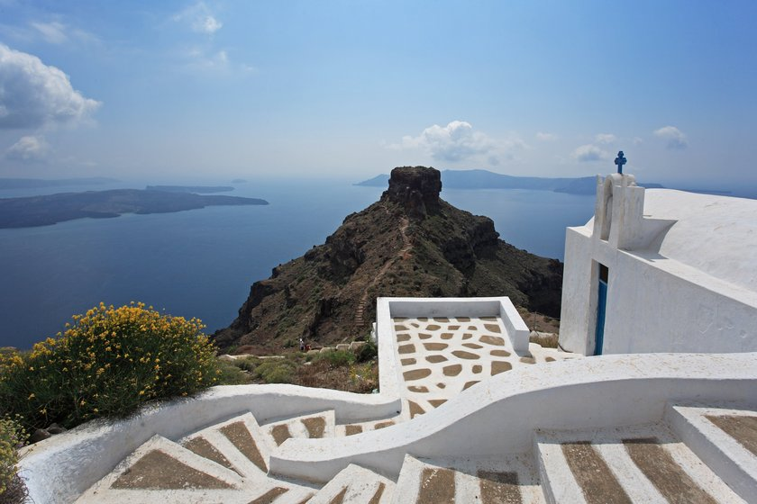 Santorini island, Greece. View of the Caldera en route to Skaros